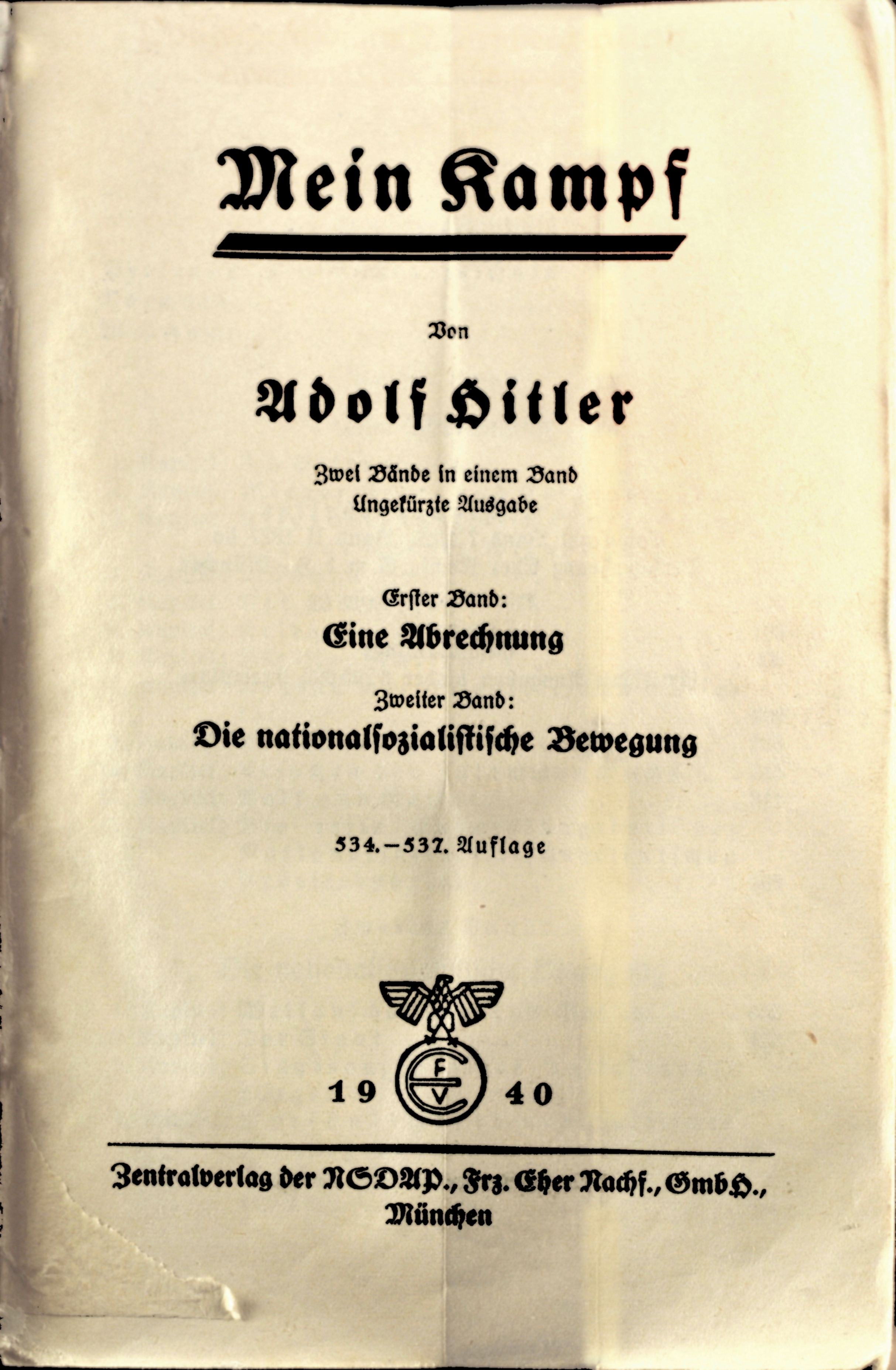 Kongreßhalle Nuremberg at the Reichsparteitagsgelände; Documents The making of this work was supported by Wikimedia Austria. For other files made with the support of Wikimedia Austria, please see the category Supported by Wikimedia Österreich. This file is ineligible for copyright and therefore in the public domain because it consists entirely of information that is common property and contains no original authorship.